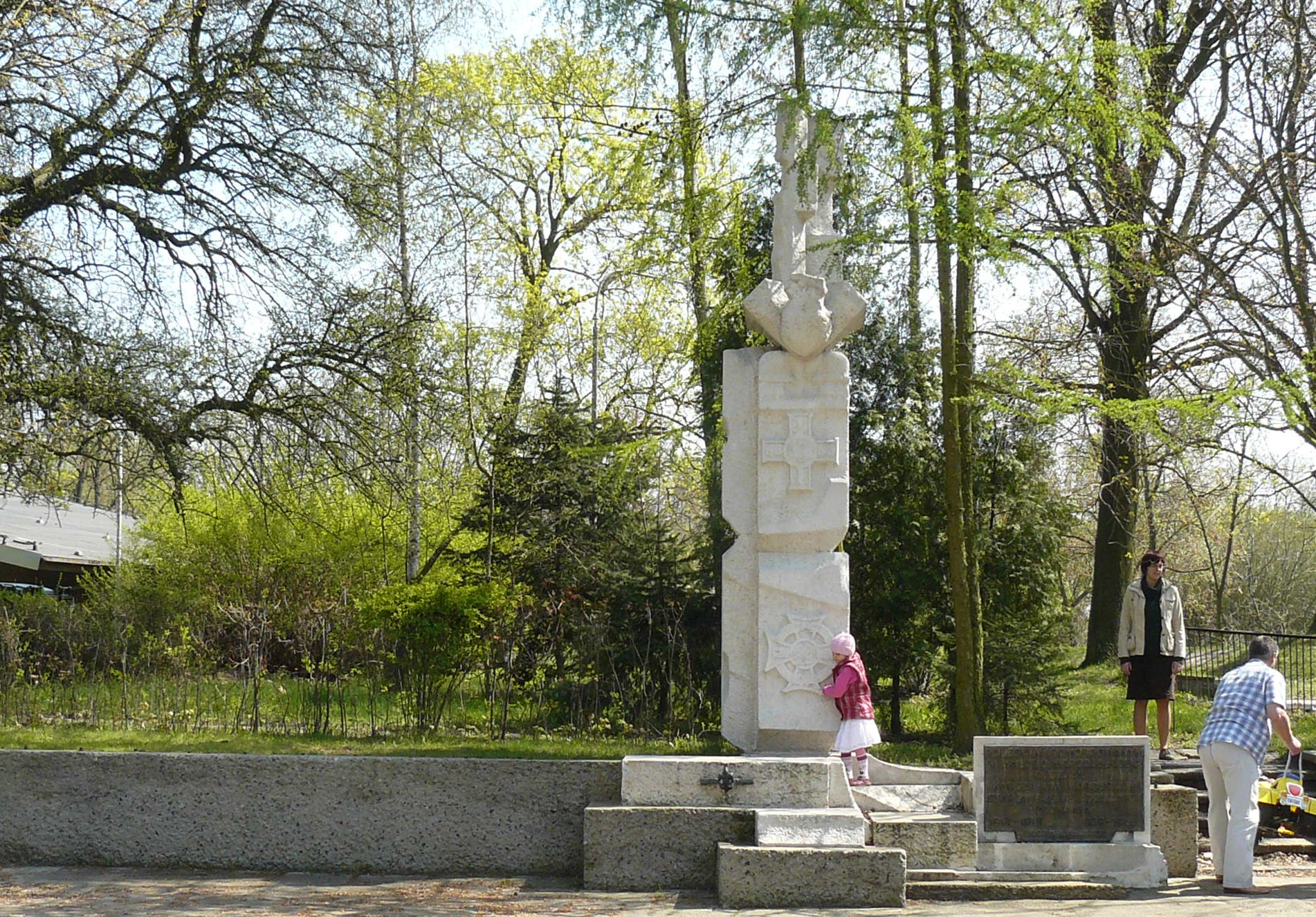 Scouting Monument, Poznan, Za Cytadela Street.